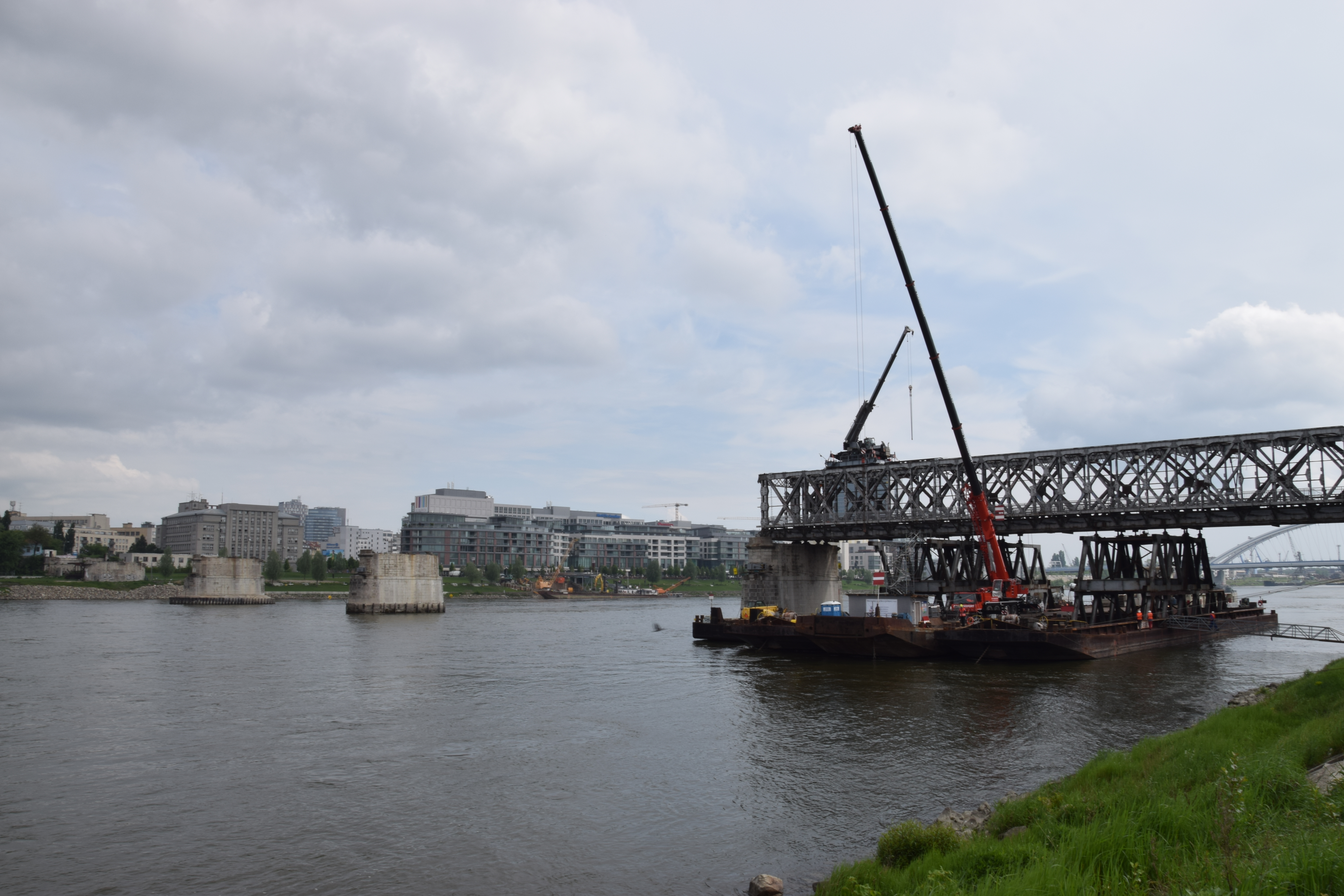 Deconstruction of Starý most (Bratislava) - 29th April 2014Slovenčina: Demontáž Starého mosta v Bratislave - 29. apríl 2014